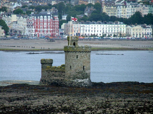 Tower of Refuge on Conister or St Mary's Rock